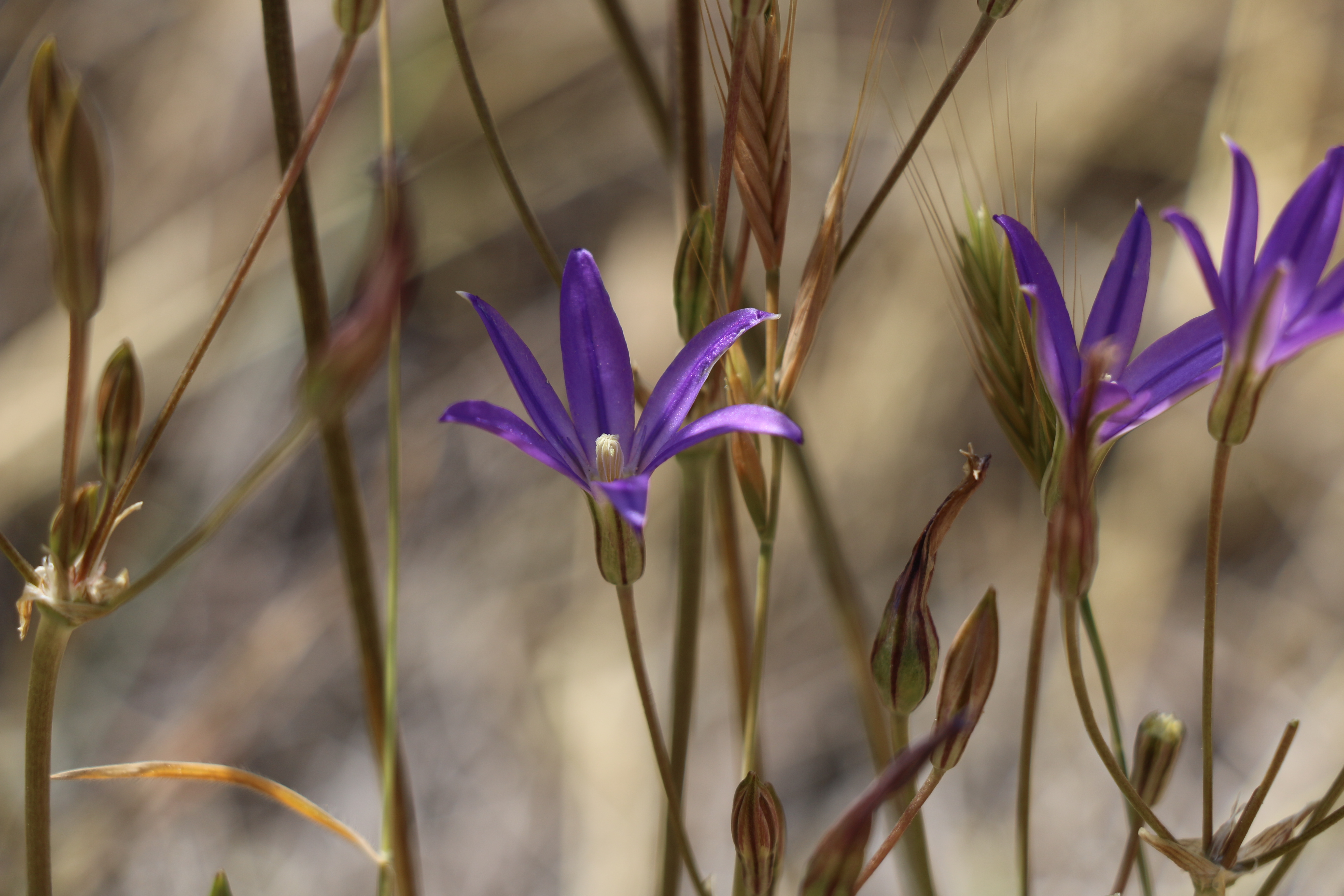 Photo by Joanna Gilkeson/USFWS.